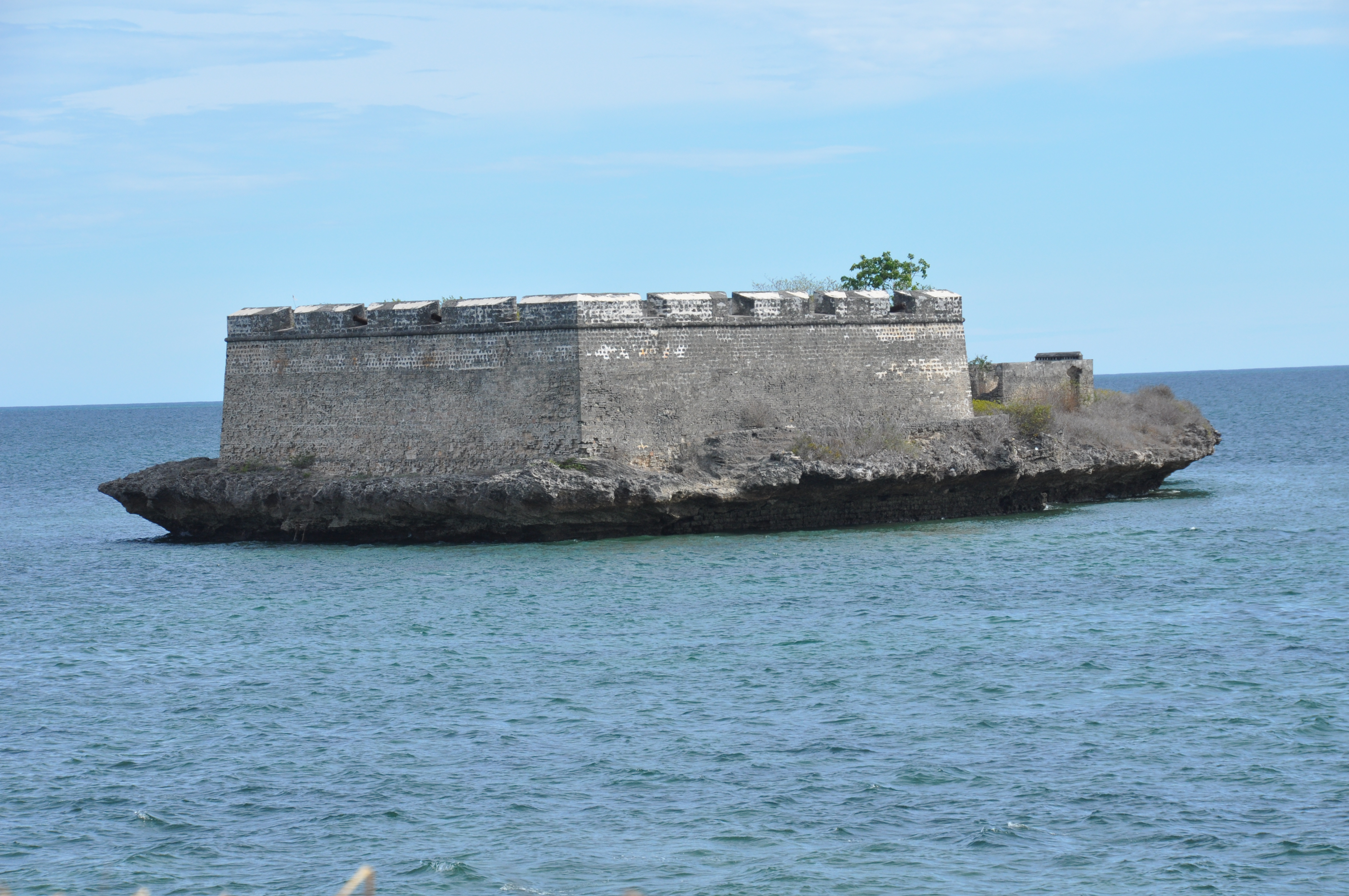 A Portuguese fort built in the late 16th century off the Mozambique Island, in the Indian Ocean, is a reminder of the 500 years Mozambique was colonized